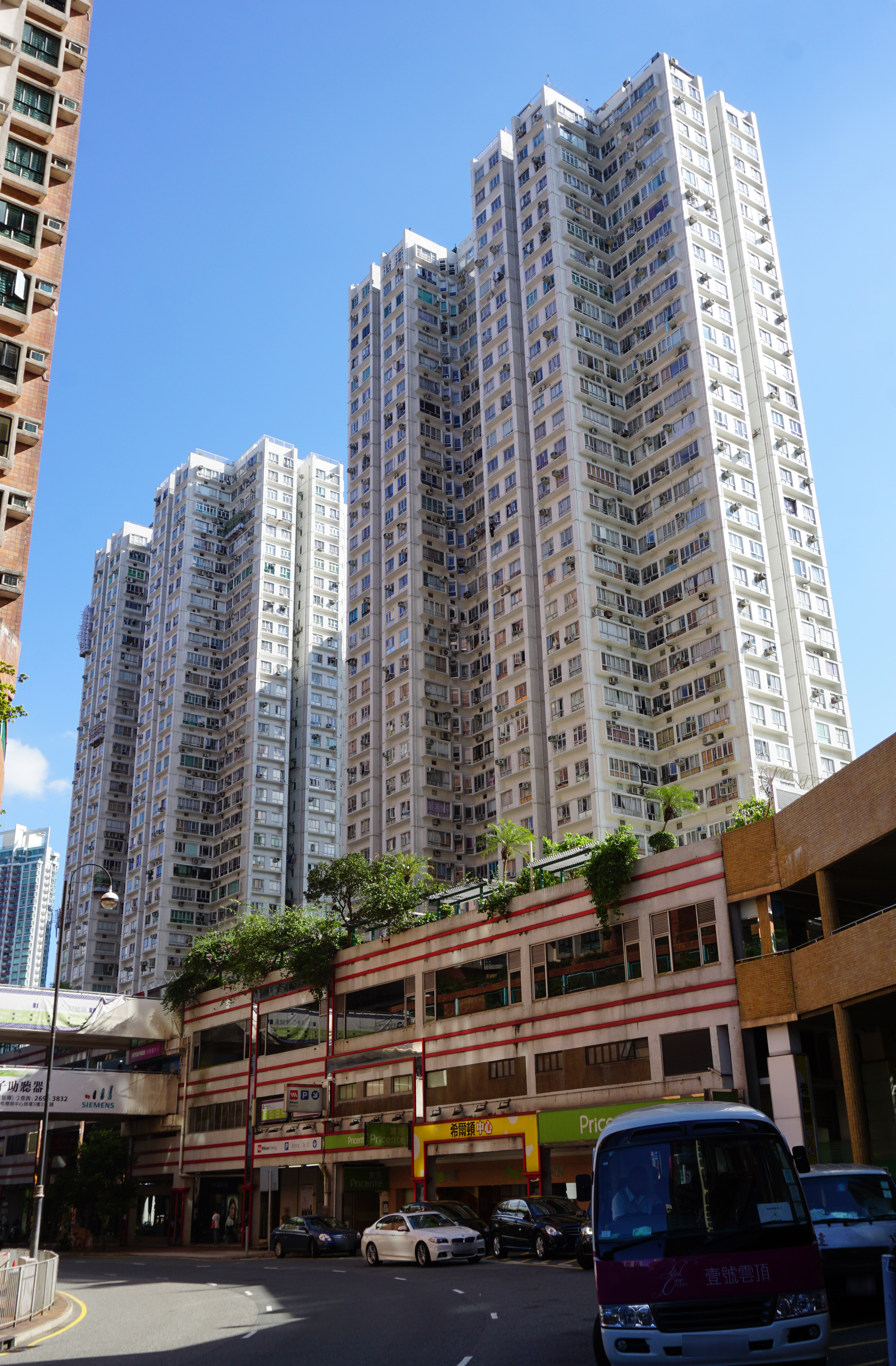 Hilton Plaza in Shatin, Hong Kong.